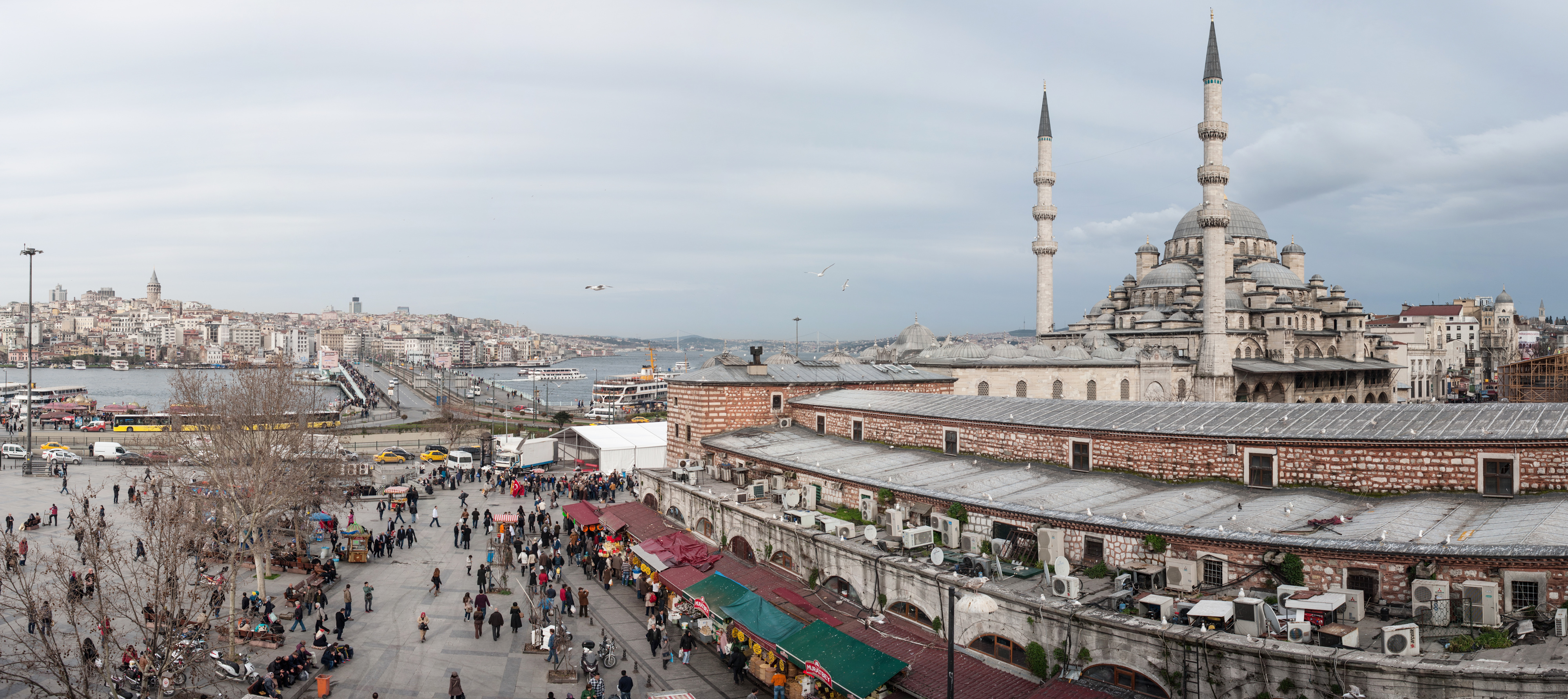 Panoramic view of Istanbul: Yeni Cami (The New Mosque), Galata Bridge. Turkey, Southeastern Europe.